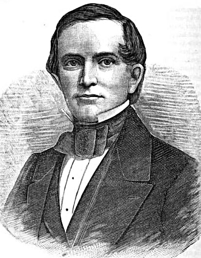 James Dixon Roman, US Representative from Maryland